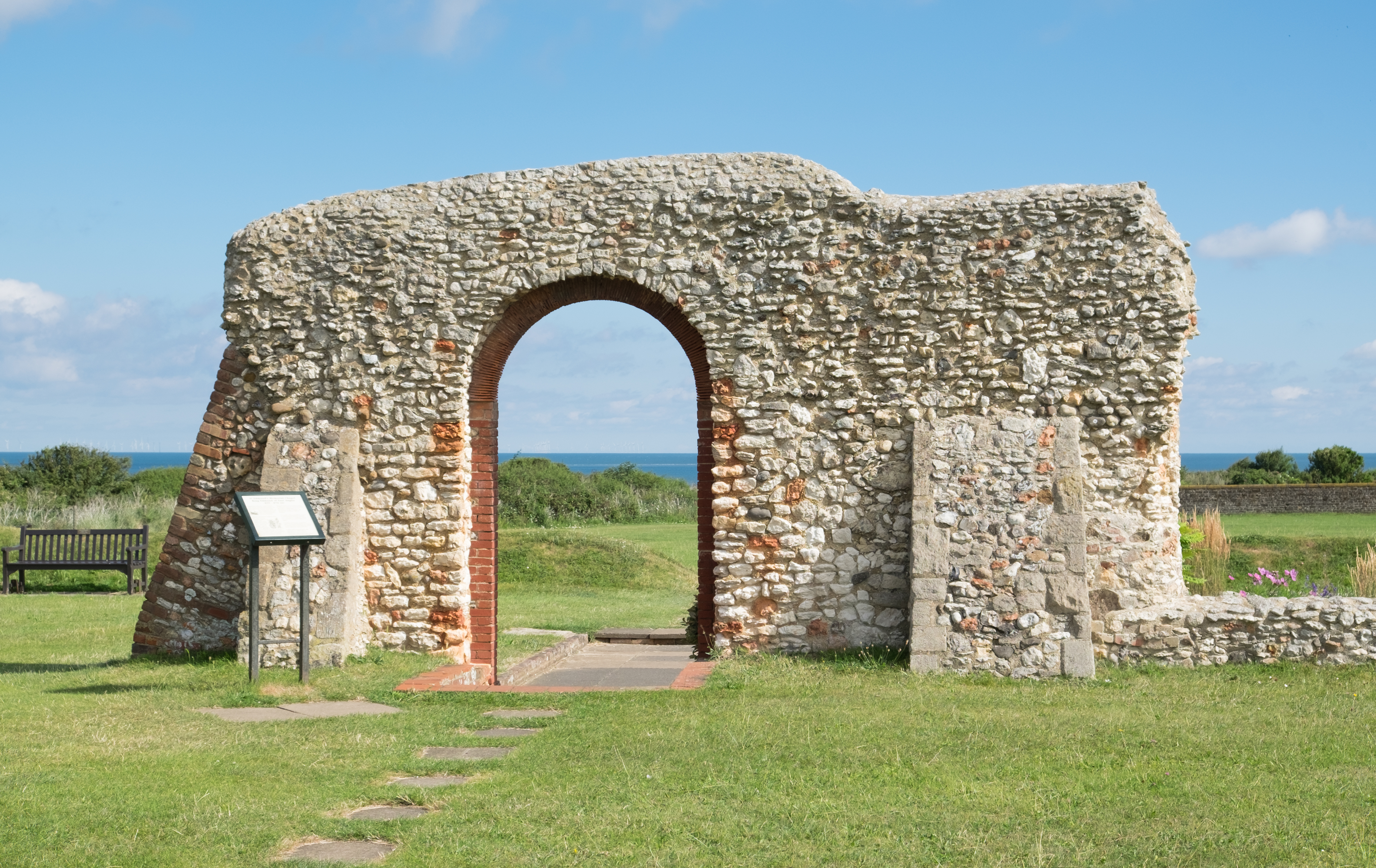 The remains of St. Edmund's Memorial Chapel, Old Hunstanton, Norfolk. Built in 1272 on the cliffs above the spot where Edmund landed in the Kingdom of East Anglia in 855 after crossing the North Sea from Germany.